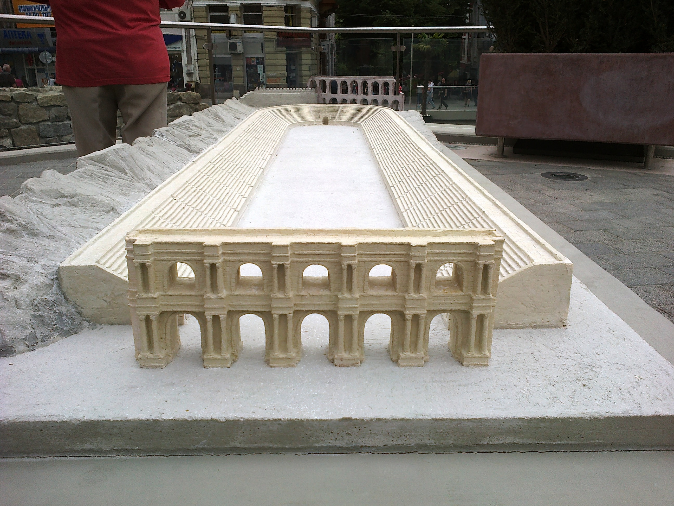 Miniature of the ancient stadium of Philippopolis.